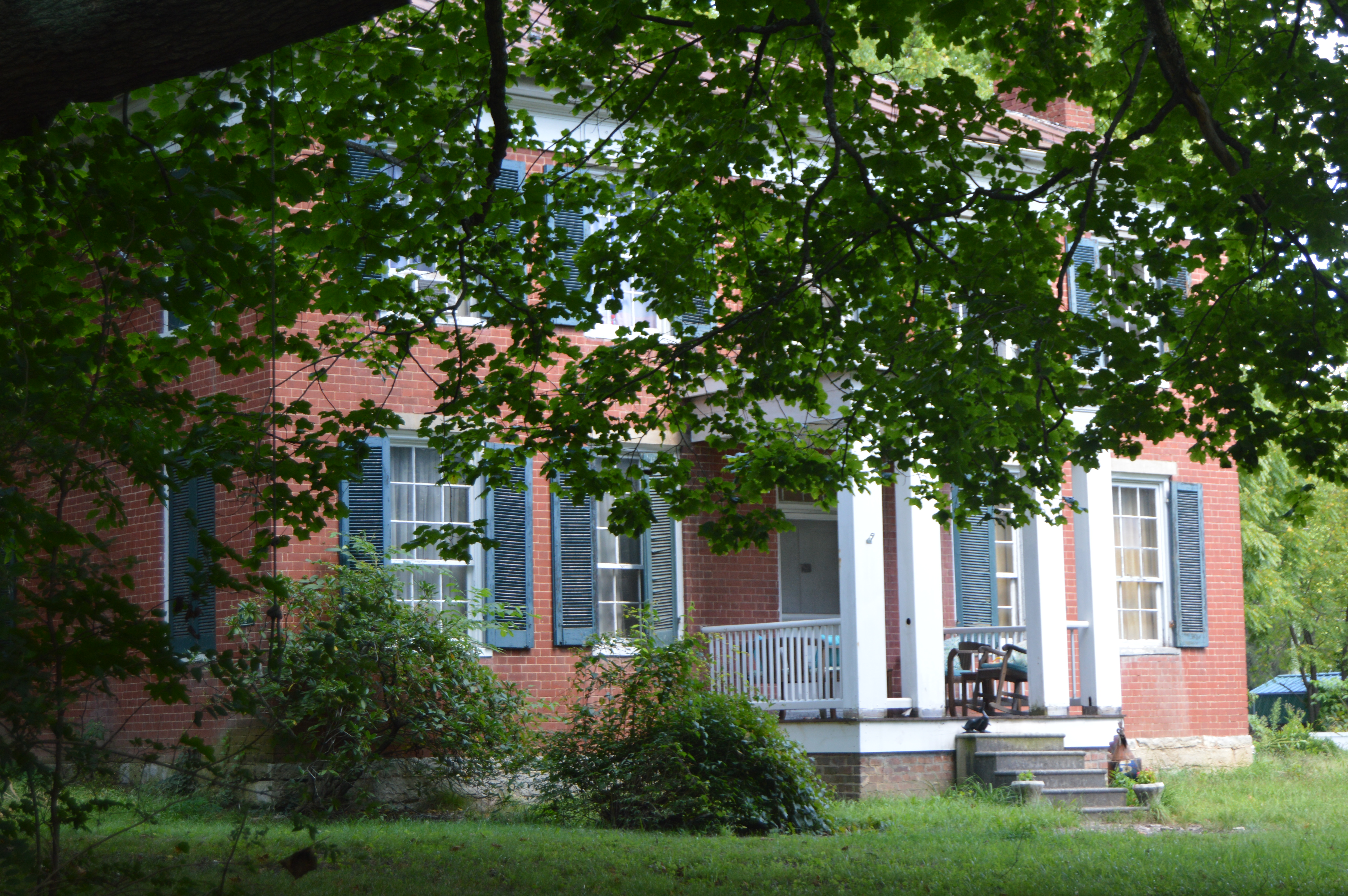 Front of the Governor Samuel Price House, located at 224 N. Court Street in Lewisburg, West Virginia, United States. Built in 1830 as the home of Samuel Price, it is listed on the National Register of Historic Places.